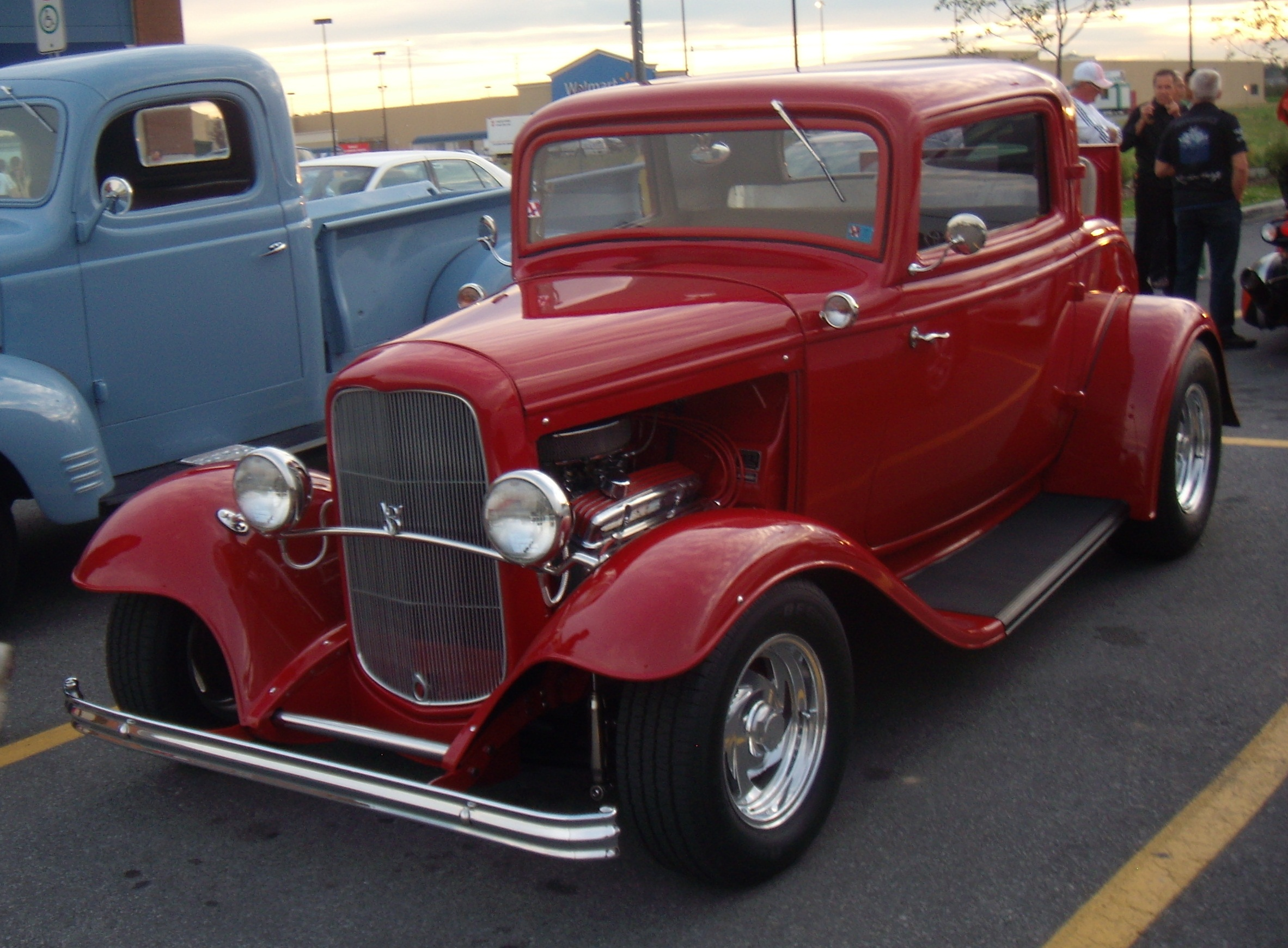 1932 Ford Model B V8 photographed in Vaudreuil-Dorion, Quebec, Canada at the Auto classique Bellepros Vaudreuil-Dorion.